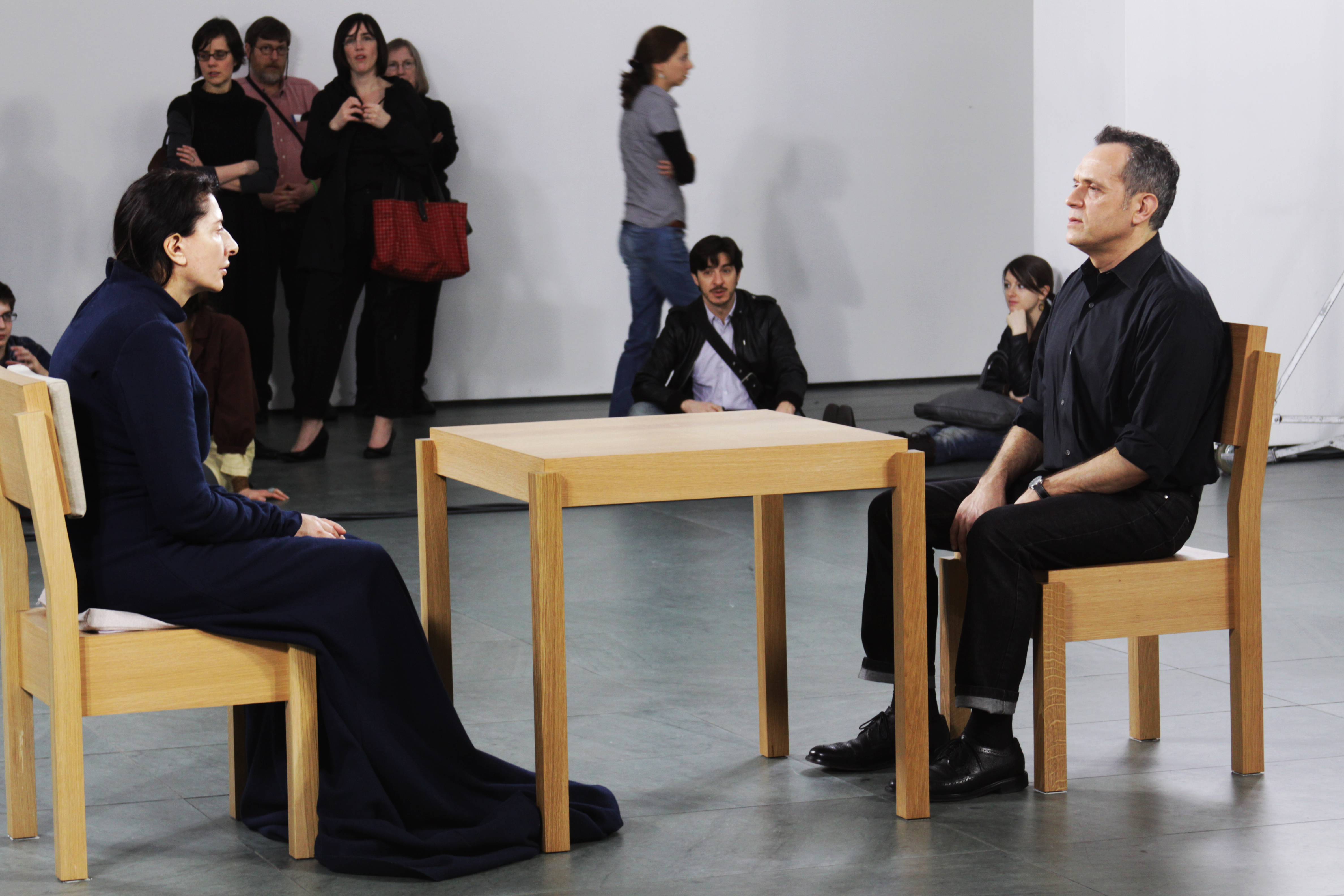 Marina performing "Artist is Present" at the MoMA in May 2010